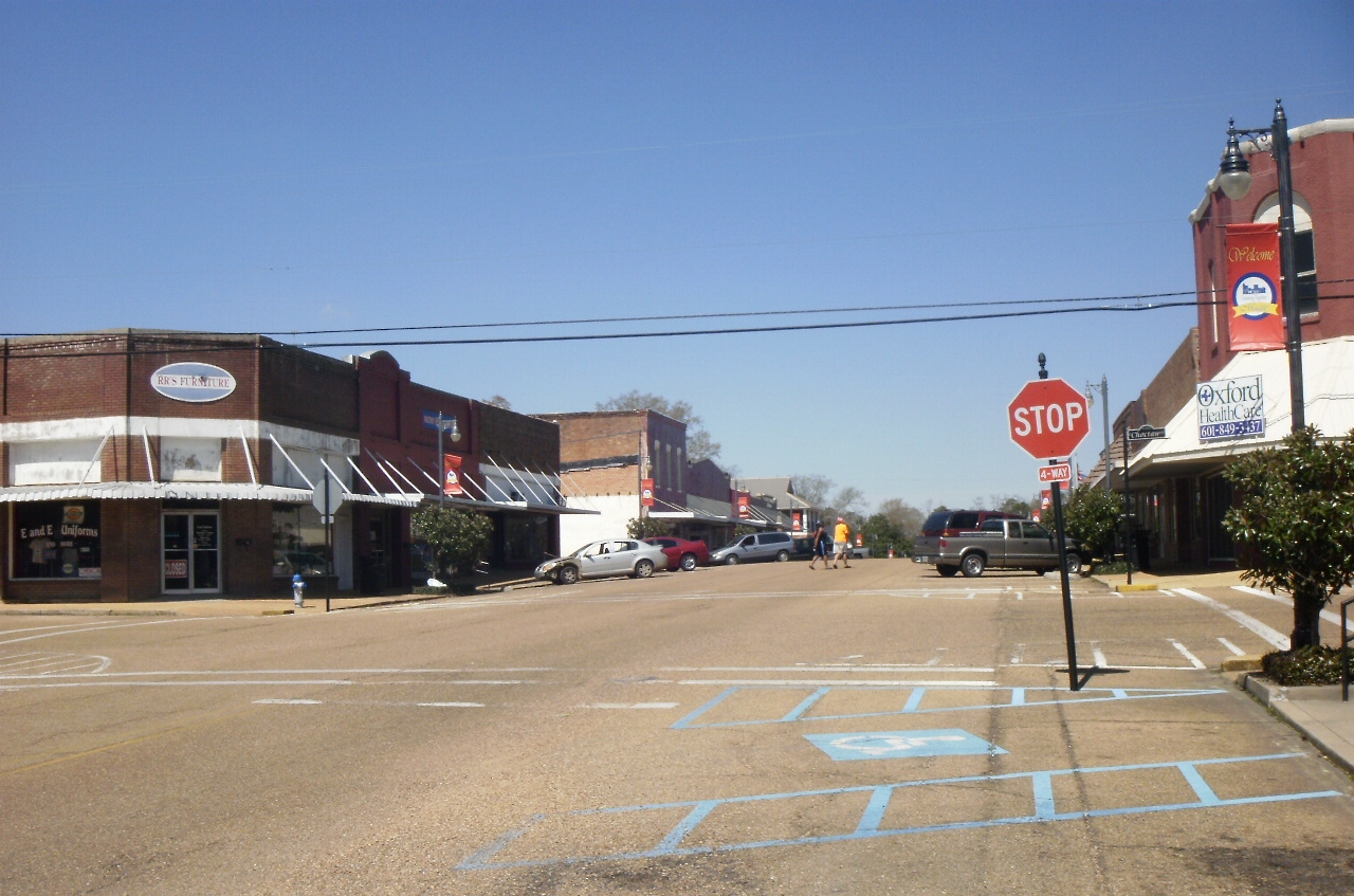 Downtown Magee,Mississippi Main Street 2013